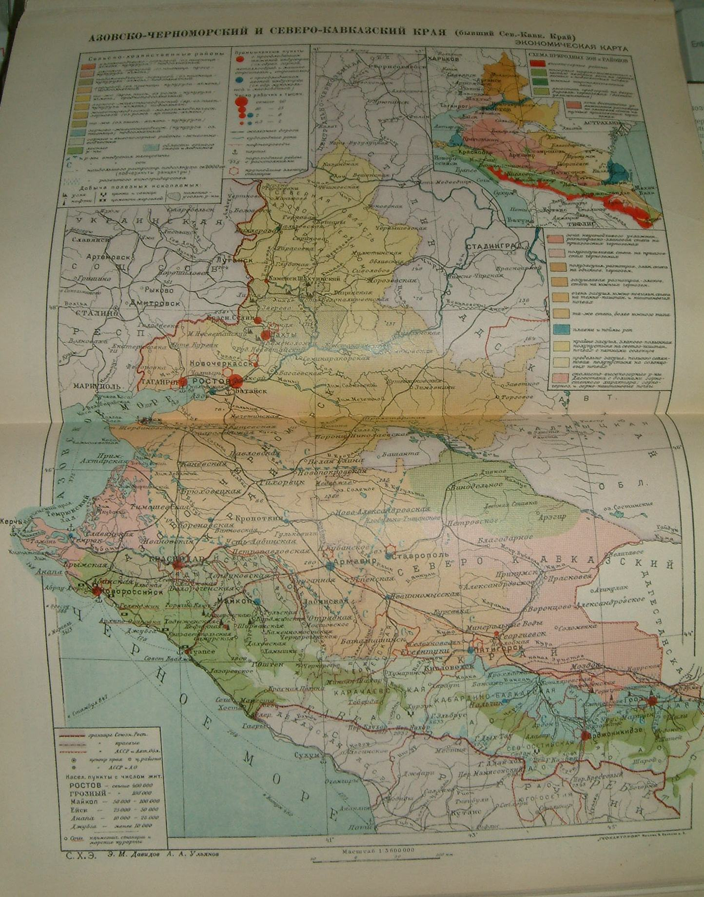 North Caucasus Krai map as of 1934